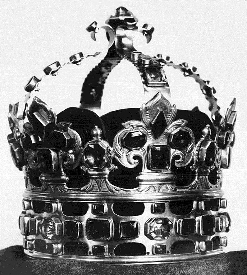 Crown of Augustus II the Strong.